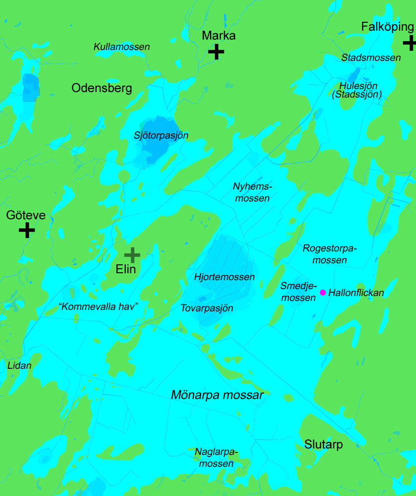 Map over the bog complex Mönarpa mossar (Mönarp's bogs) in the municipality of Falköping, Västergötland (Westrogothia), Sweden. Scale 1:40,000. Land is green. Lakes and watercourses are blue. Bogs are lighter blue. Drained peat soil is lightest blue. The site, where the Neolithic skeleton called "The Raspberry Girl" (Hallonflickan) was found, is marked magenta